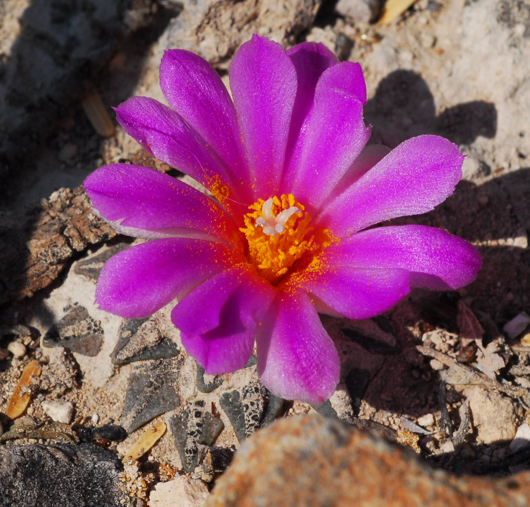 Ariocarpus kotschoubeyanus with flower, Nuevo Leon, Mexico